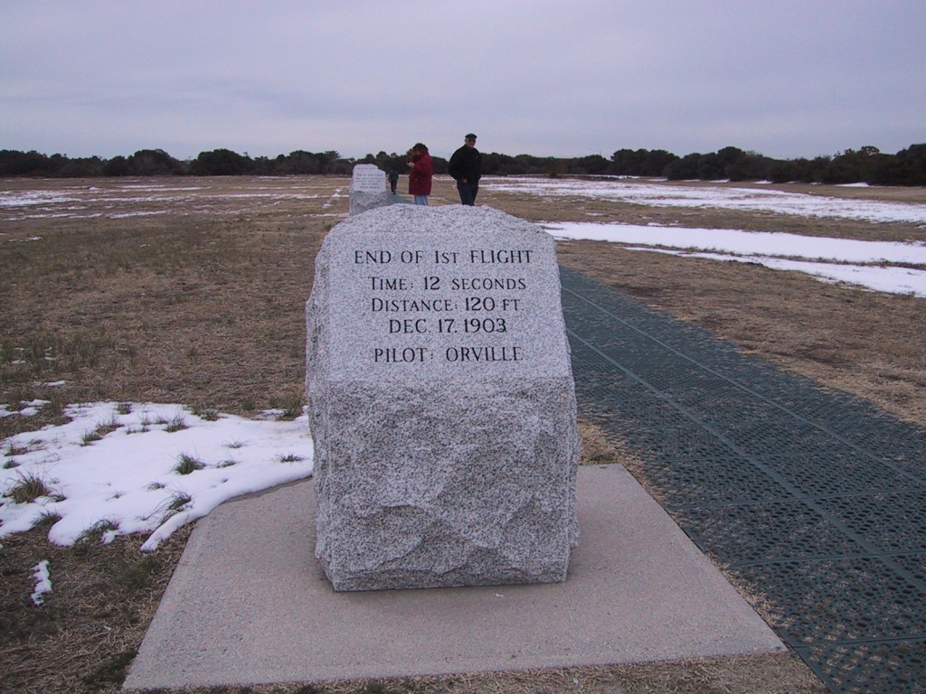 First flight landing point monument for Wright Brothers. Wright Brothers National Memorial, Kill Devil Hills, North Carolina, USA.